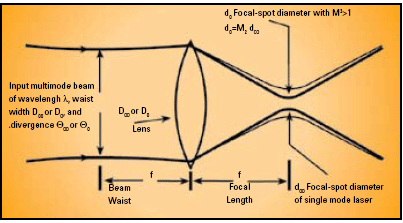 laser beam quality - M2 definition